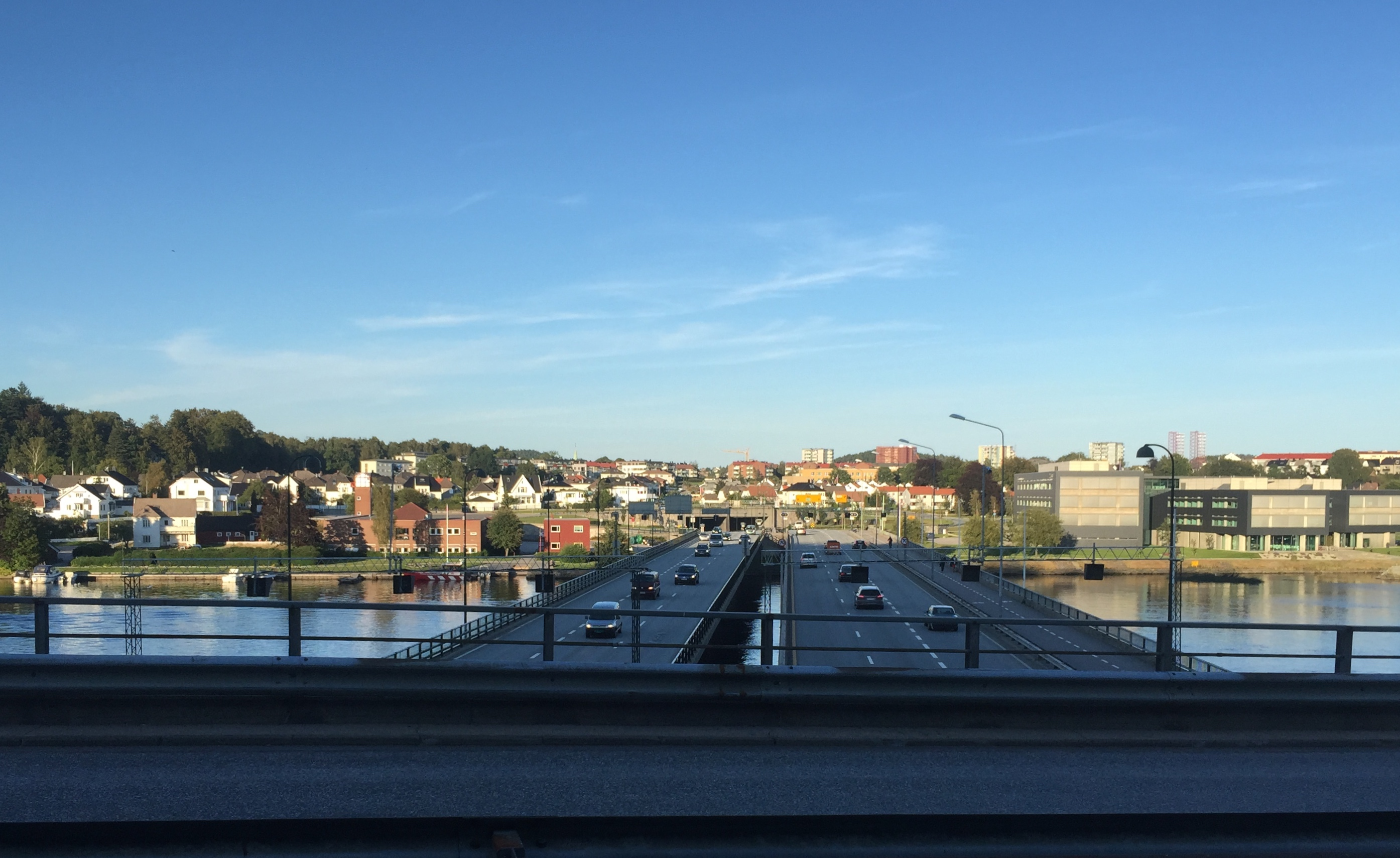 Oddernesbrua and Lund, Kristiansand